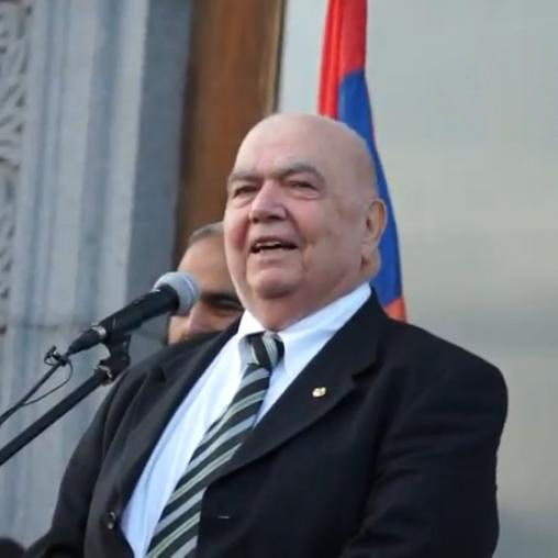 Richard Hovannisian in Yerevan on 22 March 2013